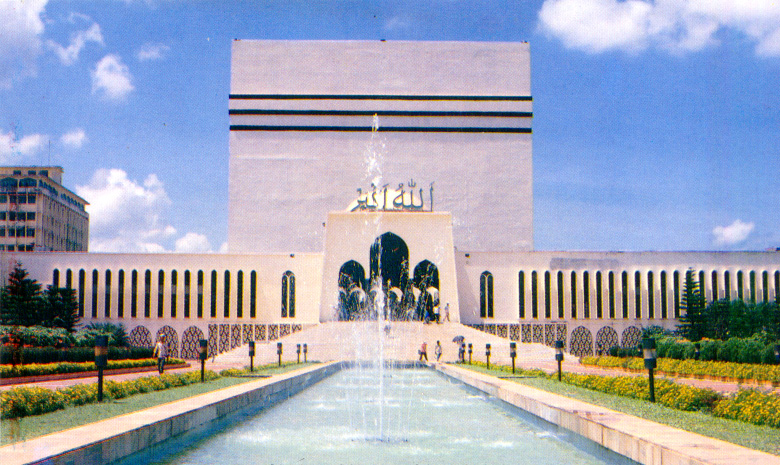 (The structure of Baitul Mukarram resembles the Kaaba in Mecca).Baitul Mukarram, also spelled as Baytul Mukarrom (Arabic: بيت المكرّم; Bengali: বায়তুল মোকাররম; The Holy House) is the national mosque of Bangladesh. Located at the center of Dhaka, capital of Bangladesh, the mosque was completed in 1968.The mosque has a capacity of 30,000, giving it the respectable position of being the 10th biggest mosque in the world. However the mosque is constantly getting overcrowded. This especially occurs during the Islamic holy month of Ramadan, which has resulted in the Bangladeshi government having to add extensions to the mosque, thus increasing the capacity to at least 40,000.